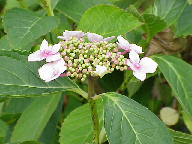 Species: Hydrangea macrophylla Family: Hydrangeaceae Image No. 2